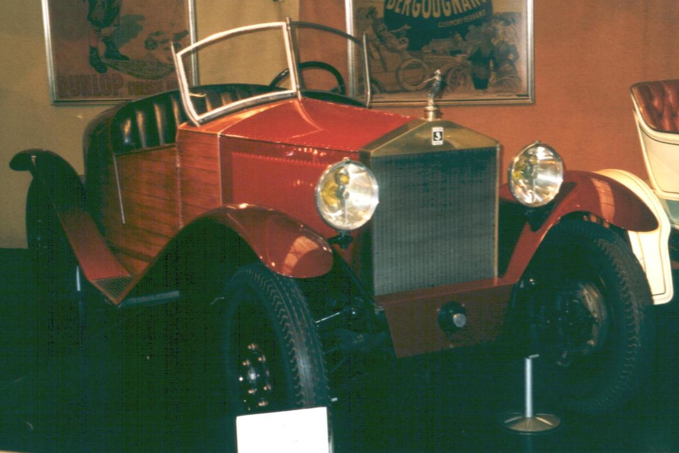 Sizaire Frères 1926 (Country of origin: France)